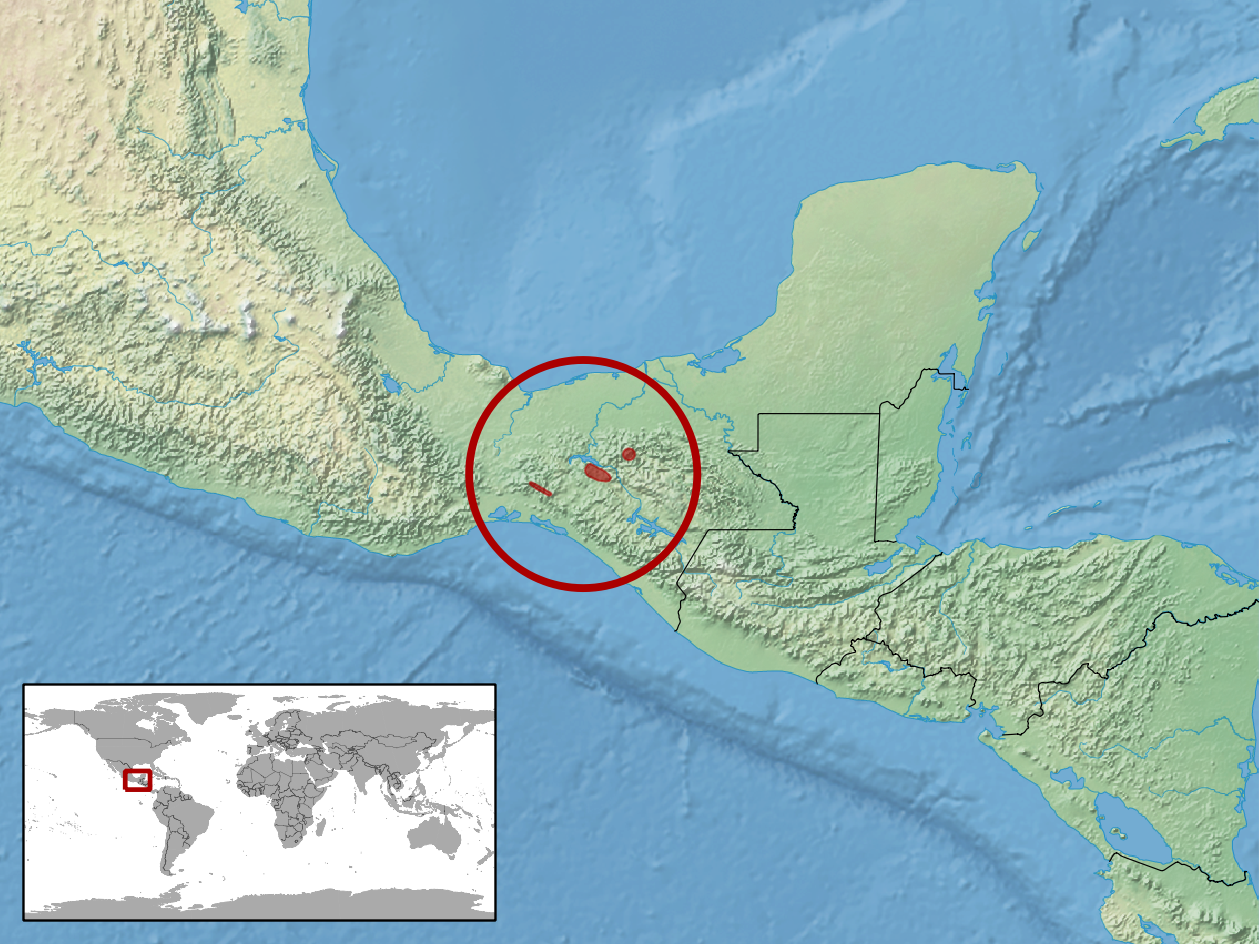 geographic distribution of Bothriechis rowleyi (Native: Mexico)